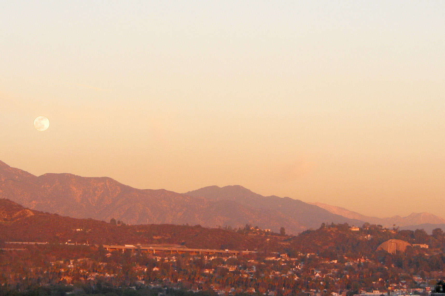 Picture by Tim Bergeron Caption: Eagle Rock from Yosemite Dr.